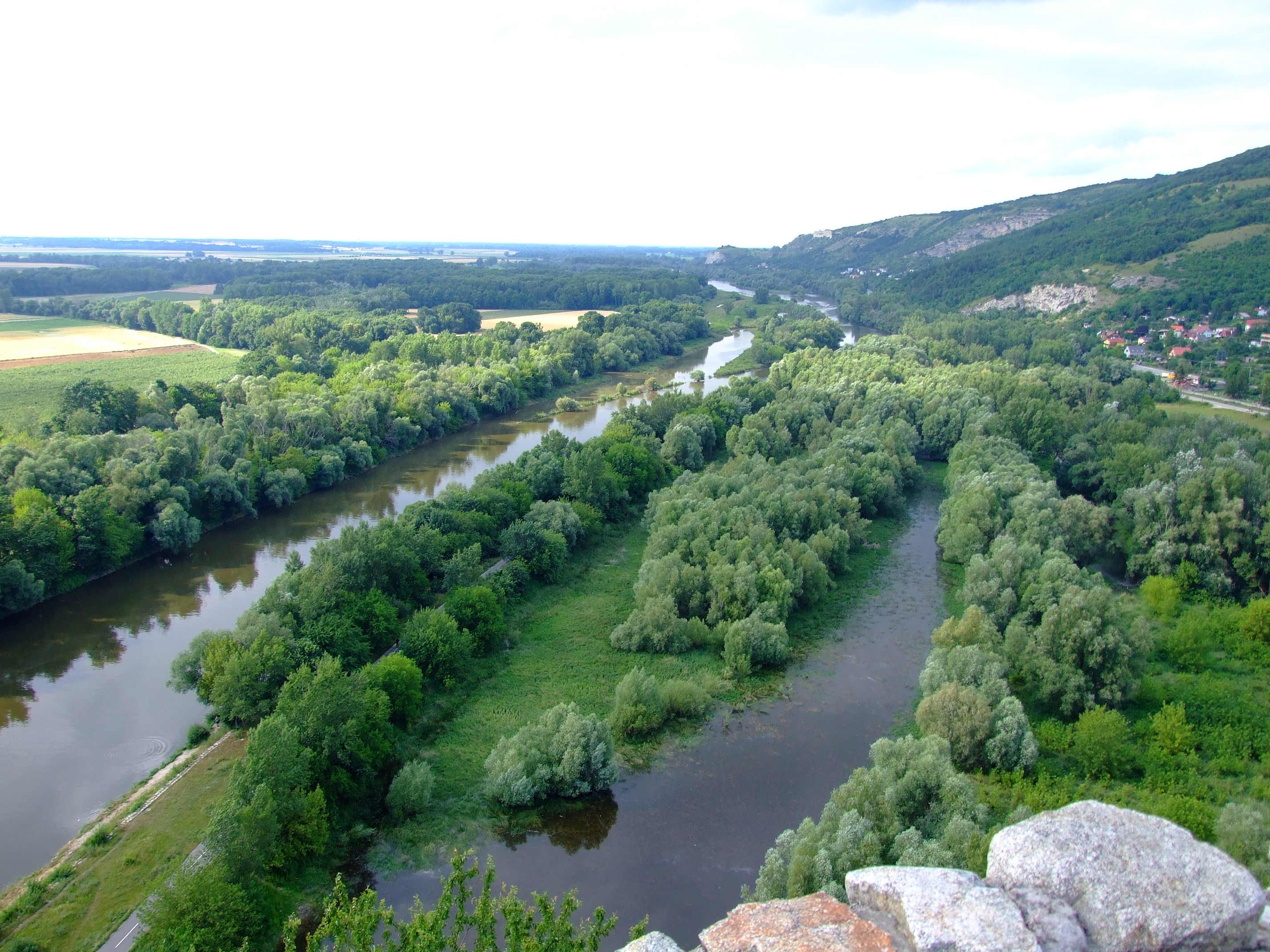 Morava River near Devín really close from confluence with Danubehelp